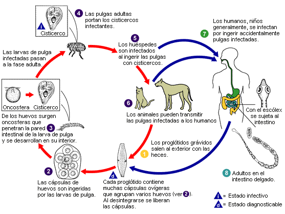 Life Cycle of Dipylidium caninum with labels in Spanish.